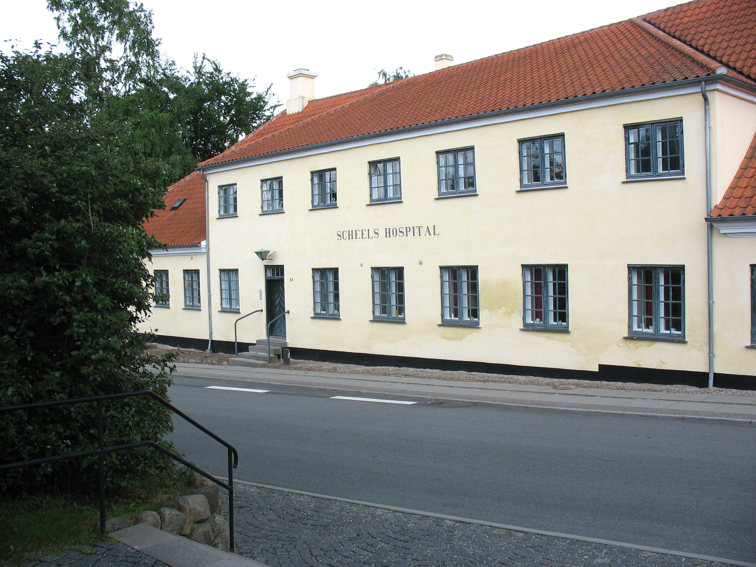 The old "Scheels Hospital" in Køge suburb "Herfølge". It is located in Middle Zealand in east Denmark.